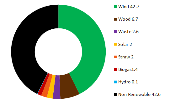 Electricity generation in Denmark by source 2014